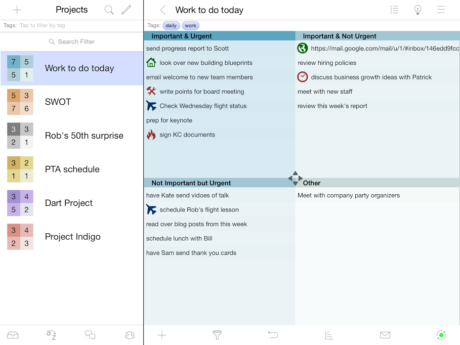 Screen capture of Priority Matrix running on an iPad